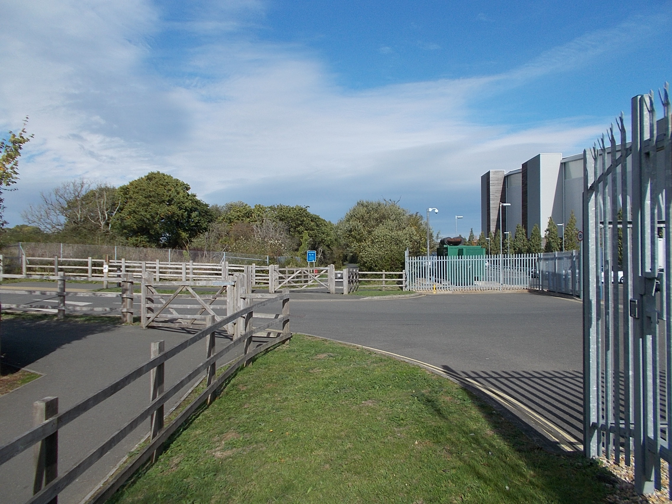 Intersection of Stag Lane and cycle path (course of old railway), nr Newport, Isle of Wight, UK.